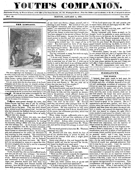 Youth's Companion, January 5, 1831. Published by Willis & Rand, in Boston Mass.